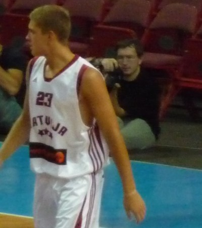 Rolands Freimanis (b.1988). Picture taken during friendly match between Latvia and Sweden.